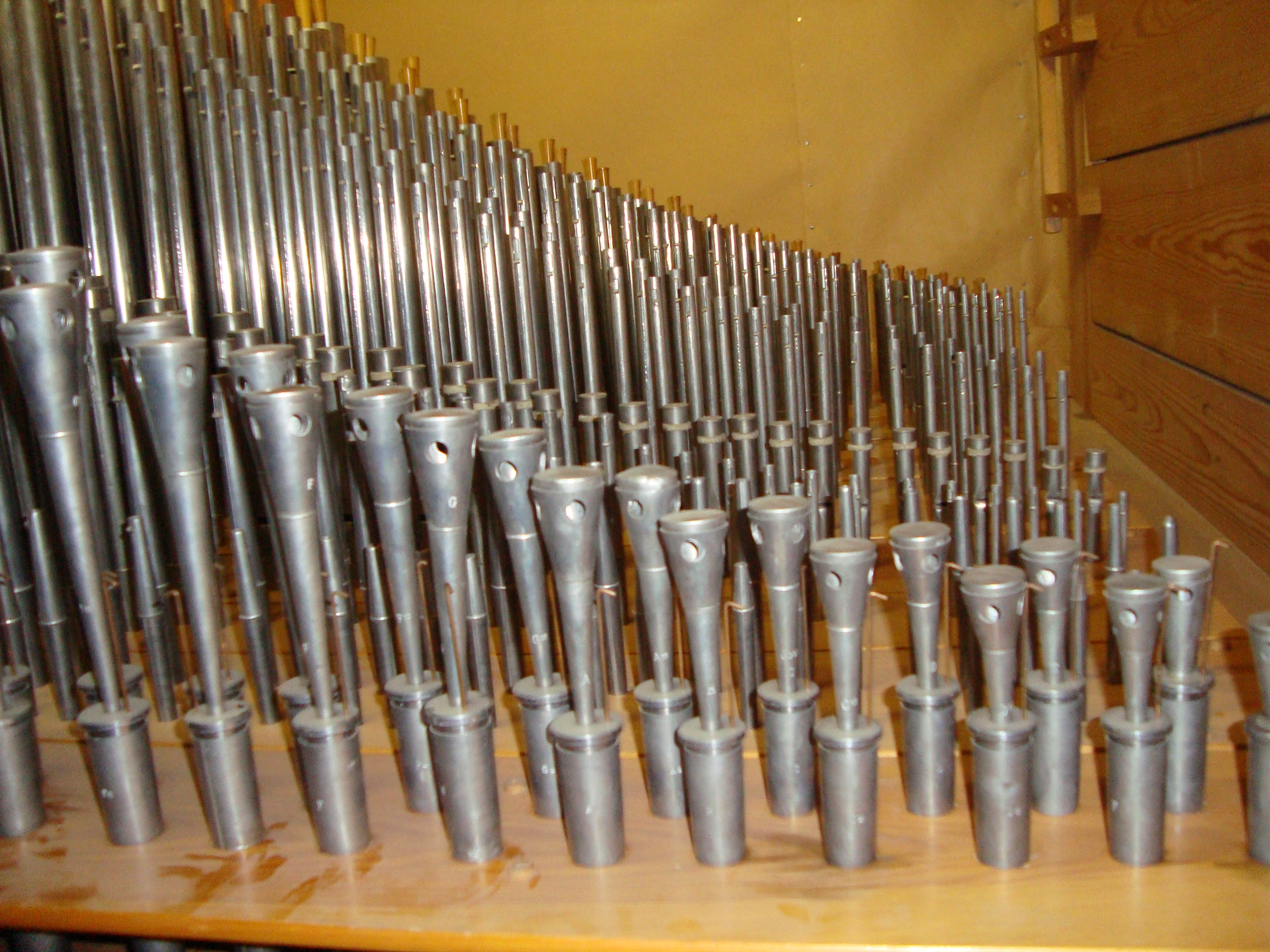 Organ of By kyrka/Church of By, Avesta Municipality, Sweden